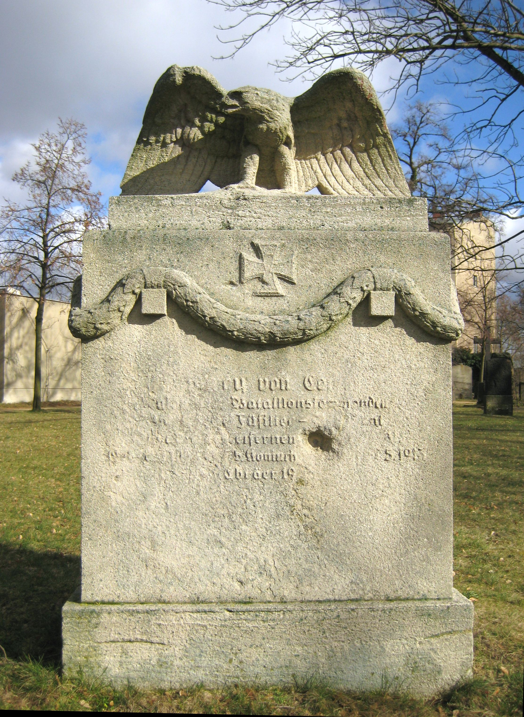 grave of WWI Major Harry von Coler, killed in action in 1915, on Invalidenfriedhof cemetery in Berlin